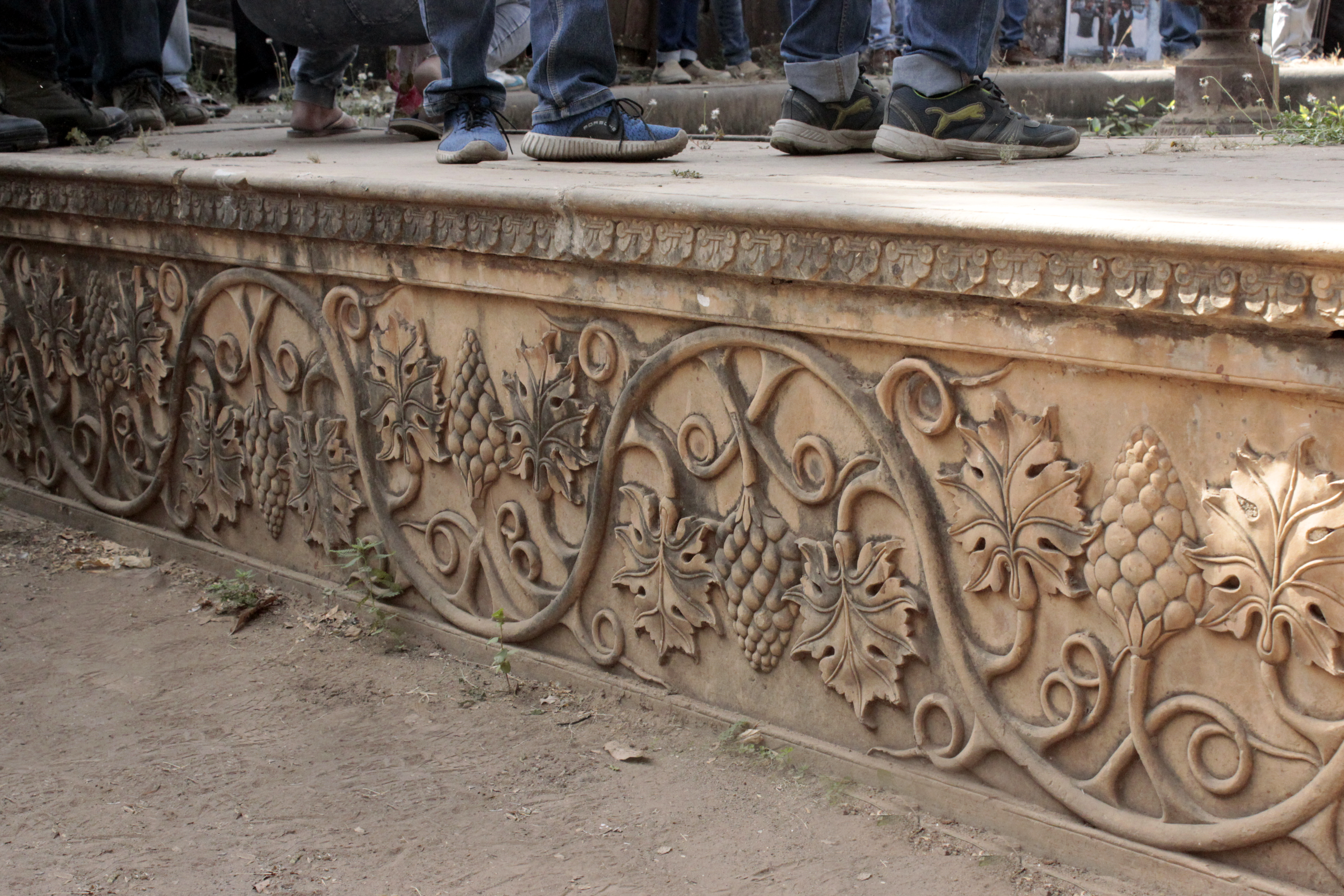 Stone Work at Sadar Manjil Bhopal